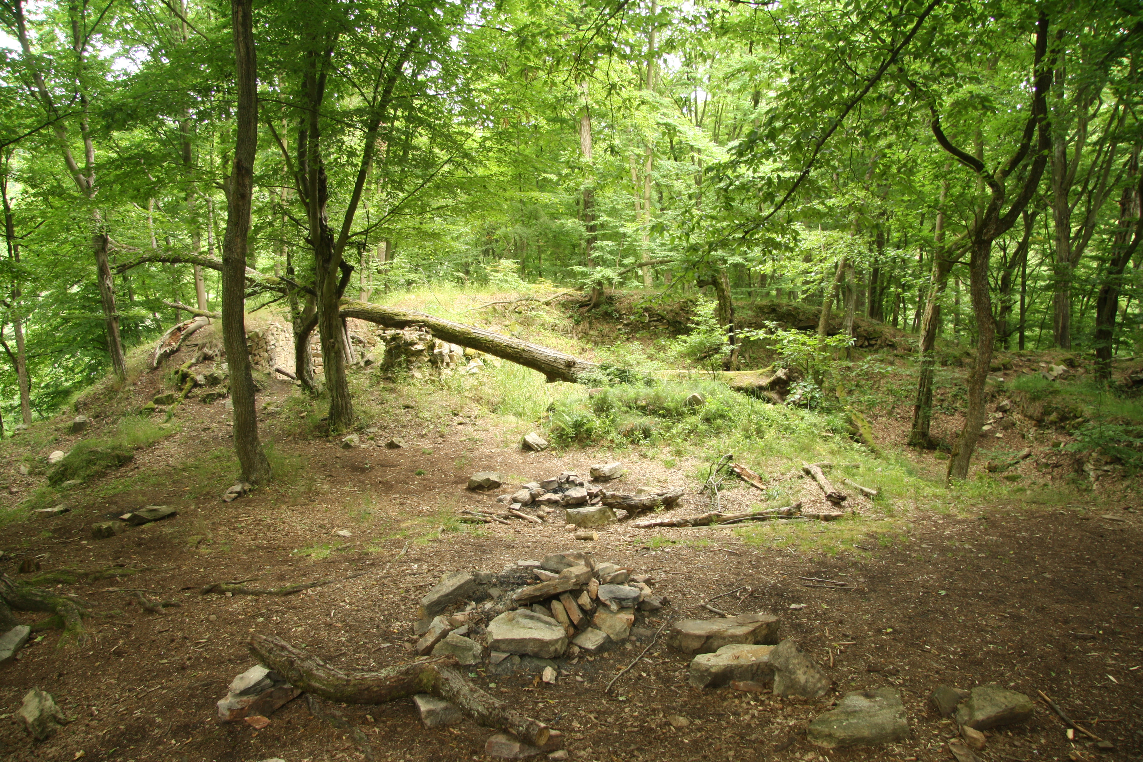 Overview of Sedlec Castle near Sedlec, Třebíč District.